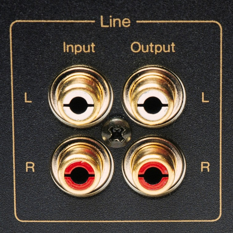 Audio-Buchsen, Eingang und Ausgang, Cinch